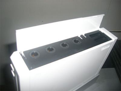 The top of the Wii showing the four GameCube controller ports and two Memory Card slots.